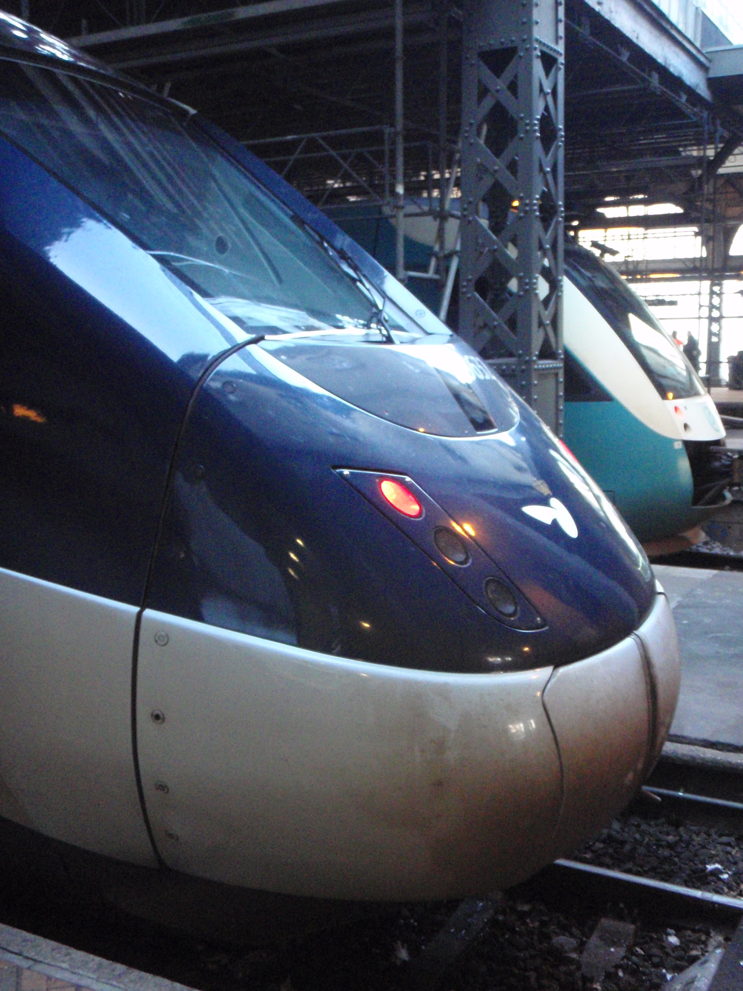 IC4 5632 and Arriva Lint 41 at Aarhus Central Station